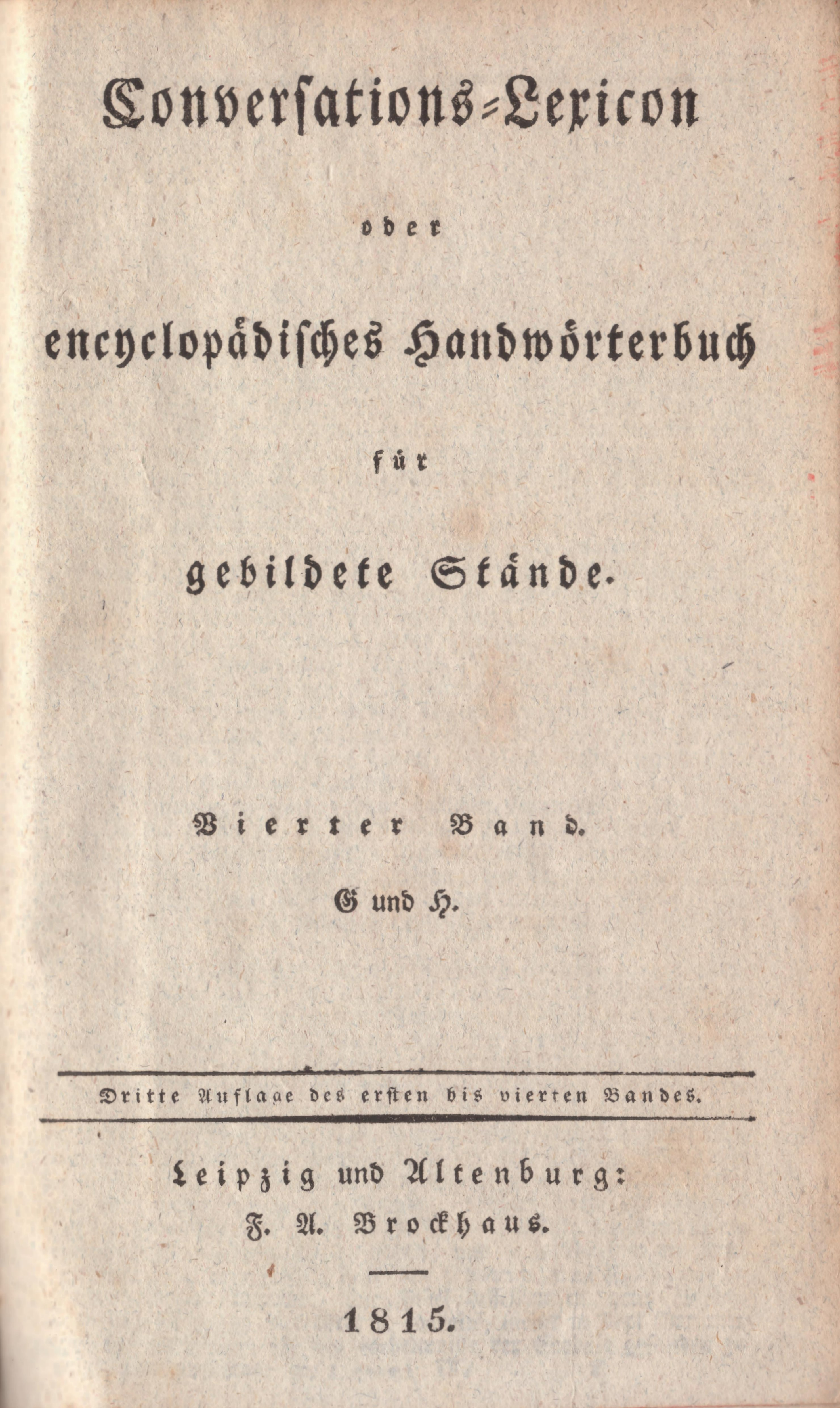 Brockhaus 3. Auflage, Originalausgabe, Bd. 4, Leipzig, Titelblatt